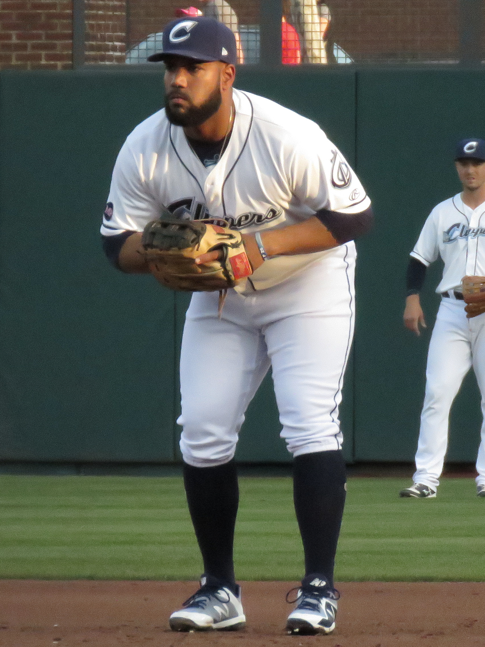 Nellie Rodriguez plays first base for the Columbus Clippers during a 2018 game in Columbus, Ohio